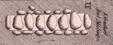 Megalithic tomb near Edendorf, Sprockhoff-No. 748